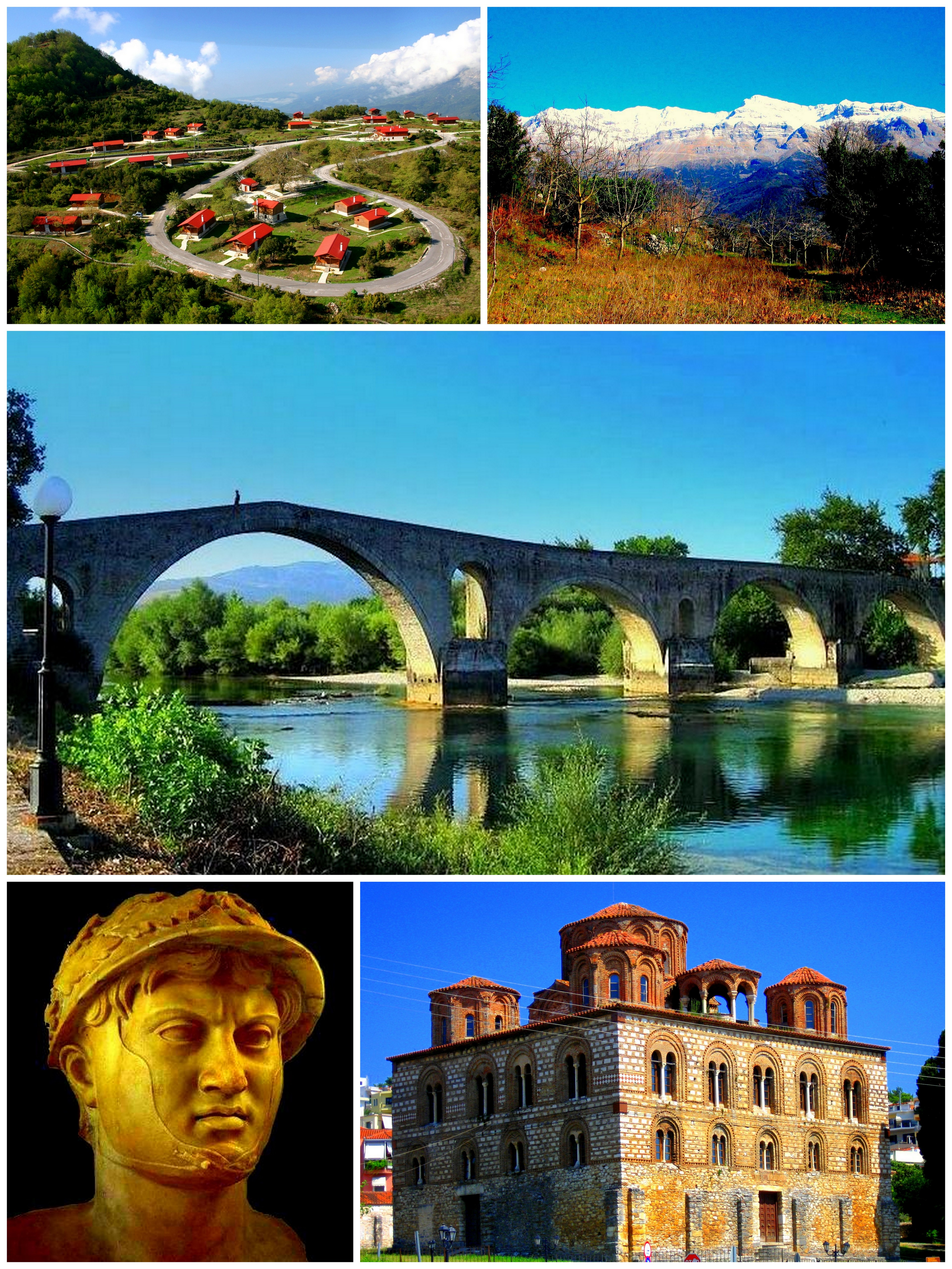 Images from Arta 1.Forest Village (Dasiko Horio in Greek), 2.Athamanika mountain, 3.Bridge of Arta, 4.King Pyrrhus of Epirus, 5.Church of the Parigoritissa